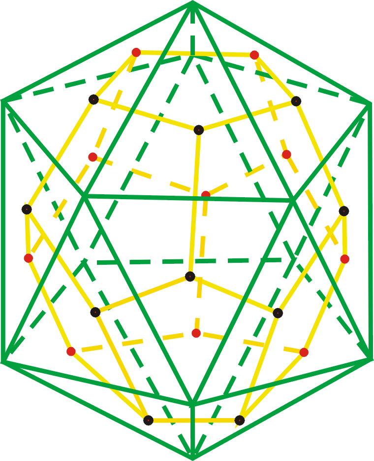 Author’s description: “icosahedron with inscribed dodecahedron”. It does represent correctly the icosahedron as a graph, but its drawing (green) contains even greater geometric errors than it could be acceptable for a hand-drawn picture on a blackboard (or it deliberately shows irregular polyhedra). For each vertex, the set of 5 adjacent vertices should form a regular pentagon which lies on a plane. Look at two pentagons which contain the lowermost vertical green edge (solid), and at two pentagons which contain the uppermost vertical green edge (dashed). They do not look like any affine projection of a regular pentagon can look.